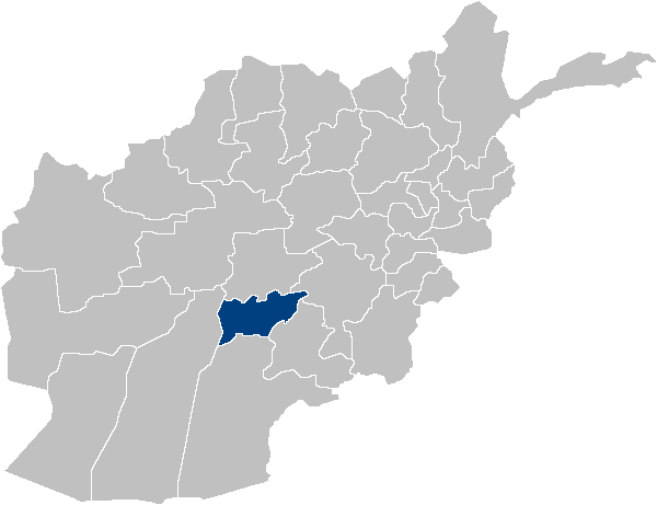 Location map for Oruzgan Province in Afghanistan. Original map source: Image:Afghanistan_provinces_blank.png